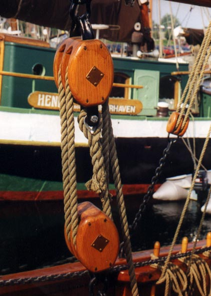 Purchase on a yacht